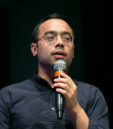 Adrian Chen @ The Influencers 2017 - Photo by Miquel Taverna